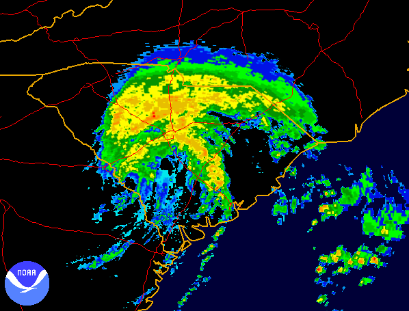 This is a radar image of Tropical Storm Alberto, 2006, from NWS Charleston NEXRAD radar and was made using JAVA NEXRAD tool.